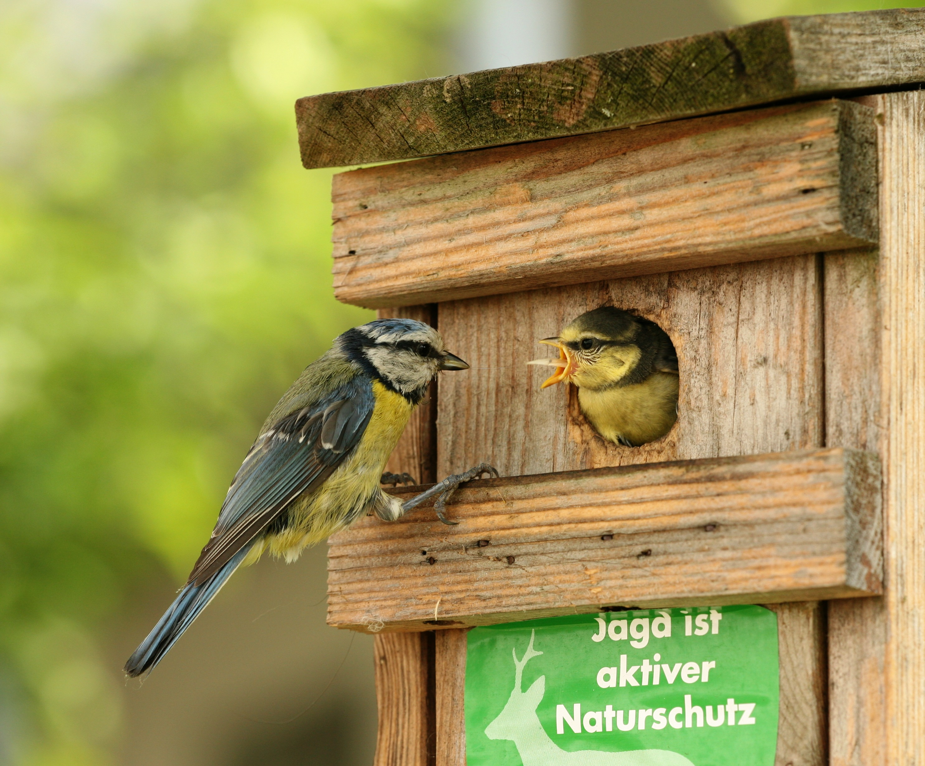 Blue Tit (Parus caeruleus) feeding its young (saliva strand still visible)